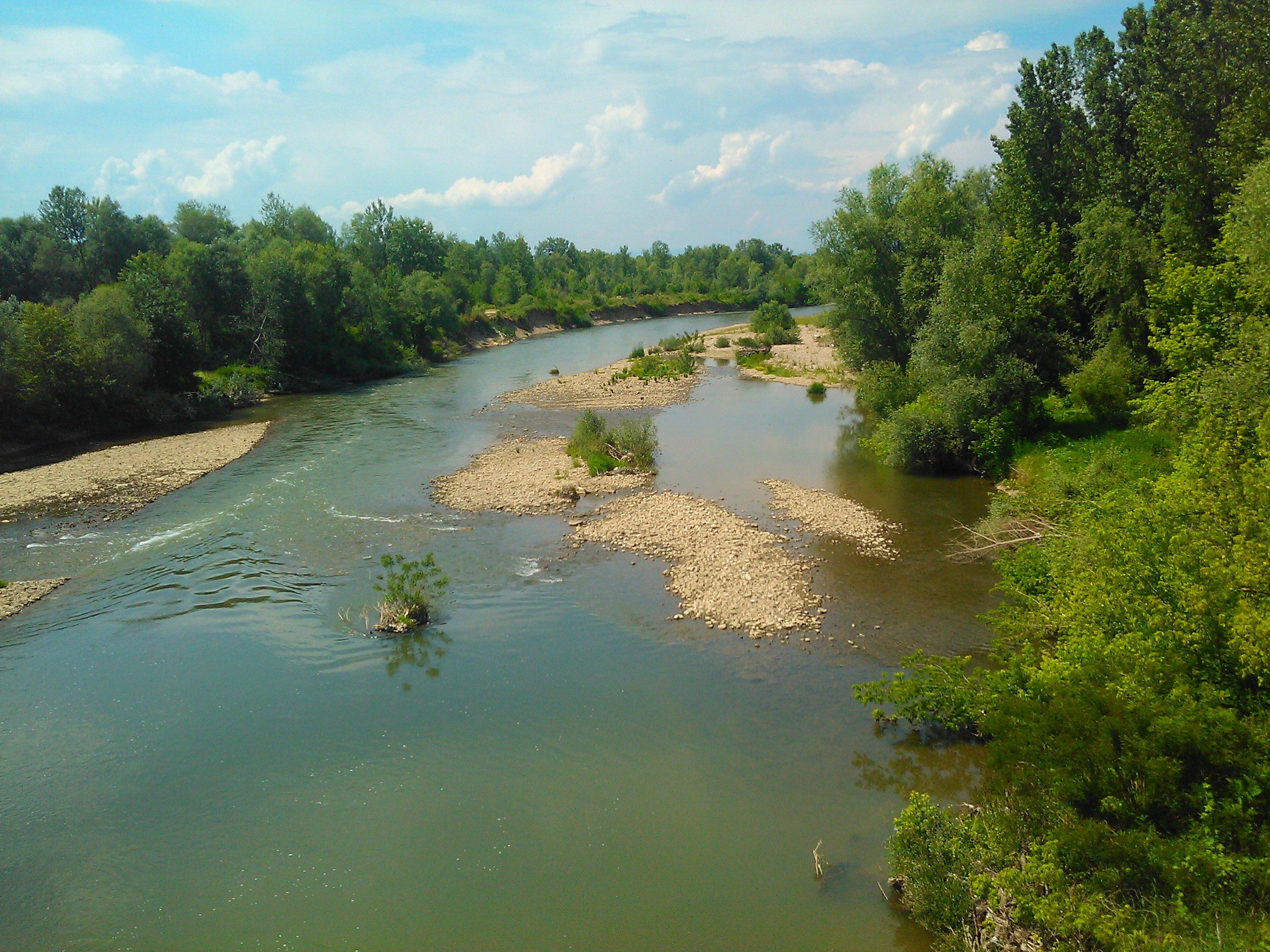 Reka Južna Morava kod Bogojevca 3